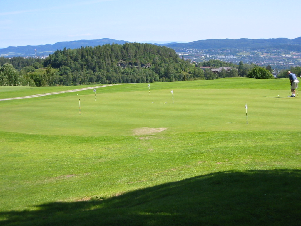 The golf course at Sommerseter in Bymarka, Trondheim. There is a fine view of the city and fjord. July 24 2006, view towards east.